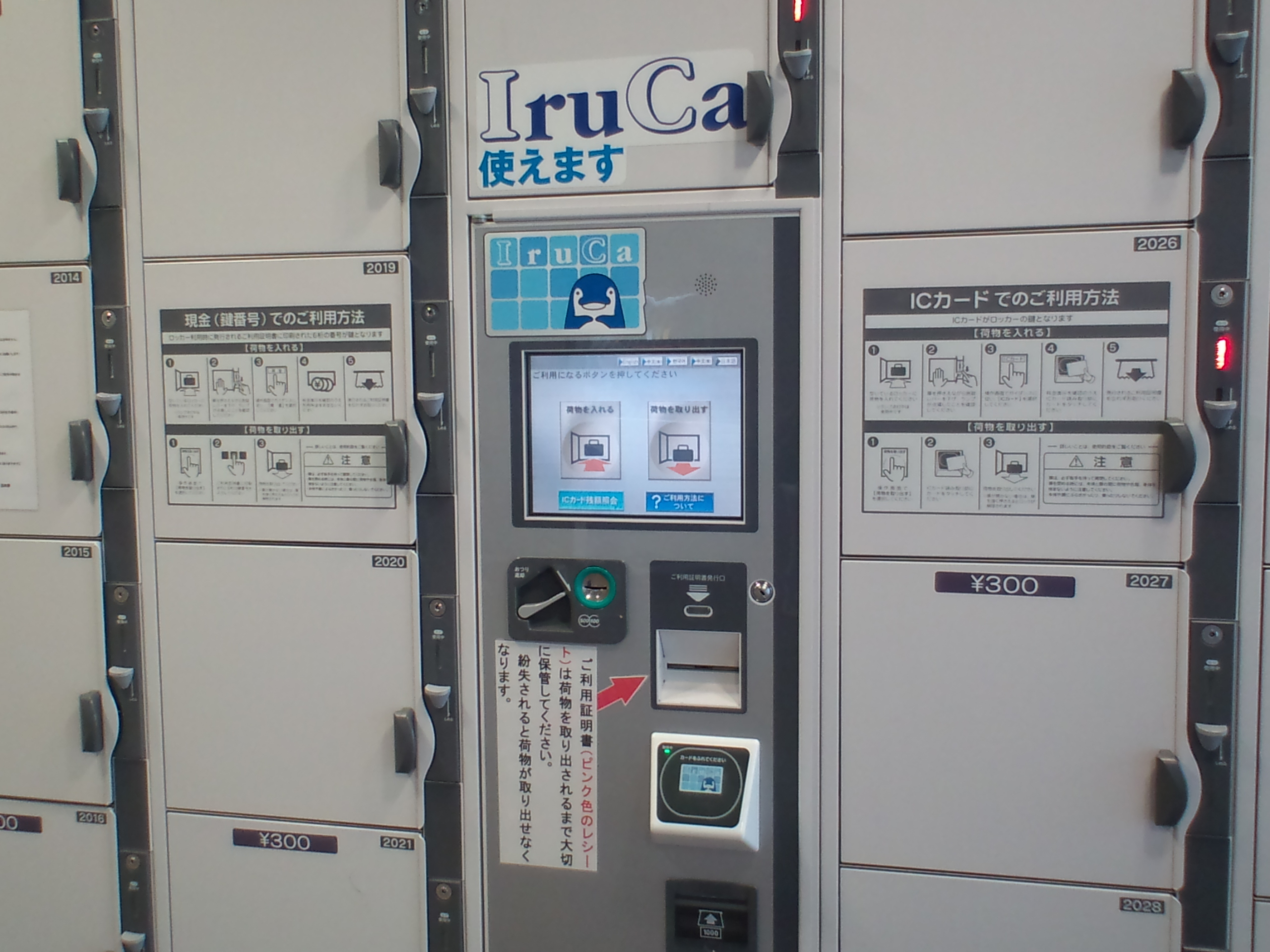 IruCa for lockers at Kawaramachi Station.